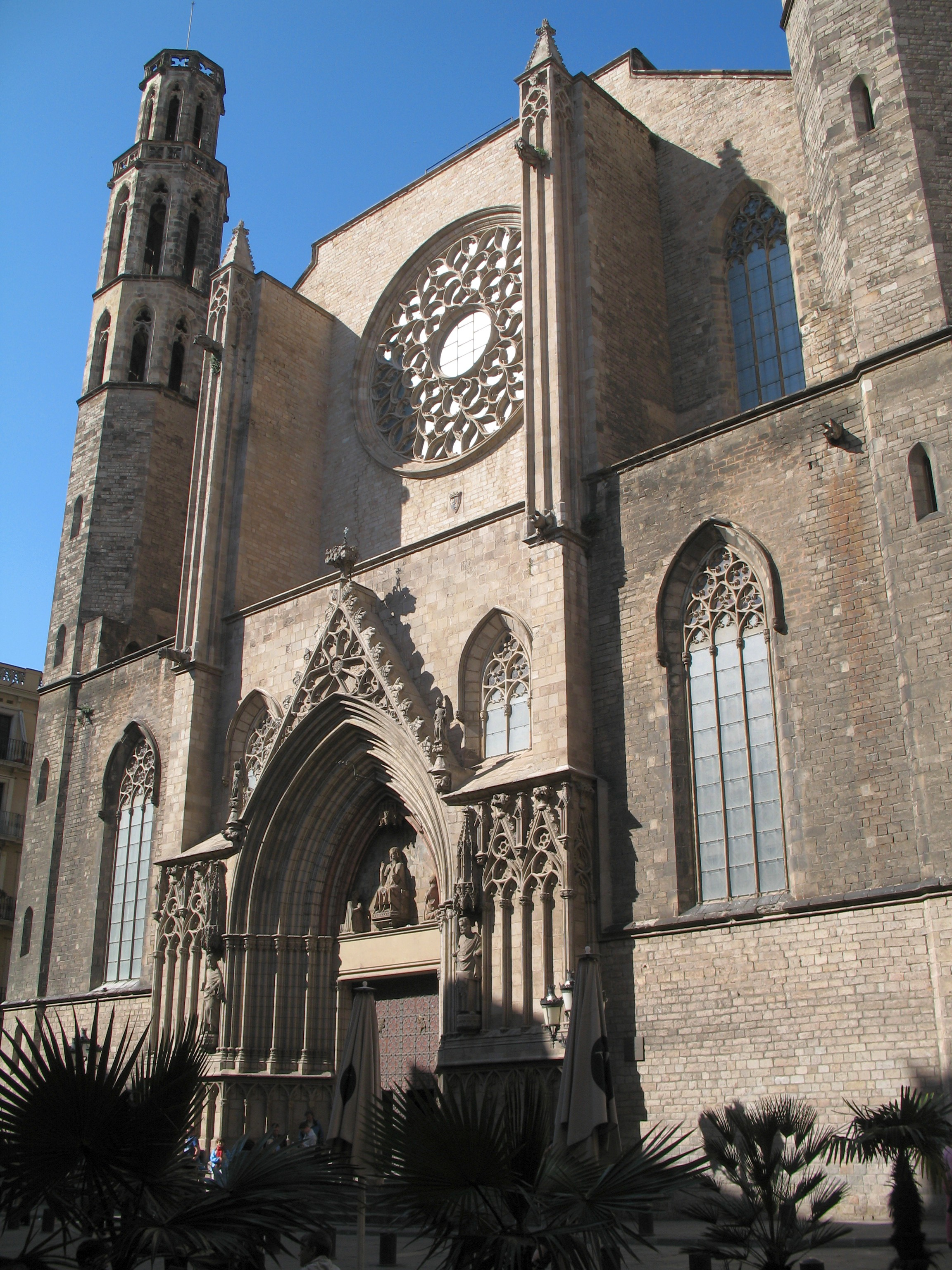 West side of Santa Maria del Mar church in Barcelona (Catalonia, Spain).